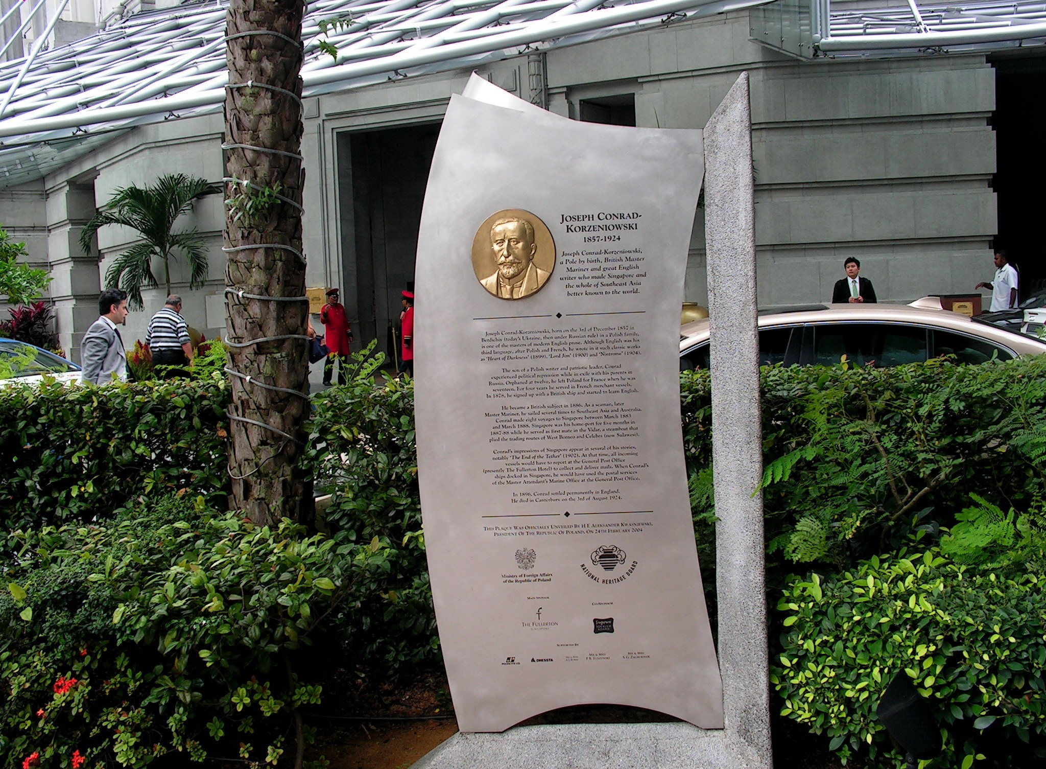 A memorial in honor of Joseph Conrad, which is located near The Fullerton Hotel Singapore.